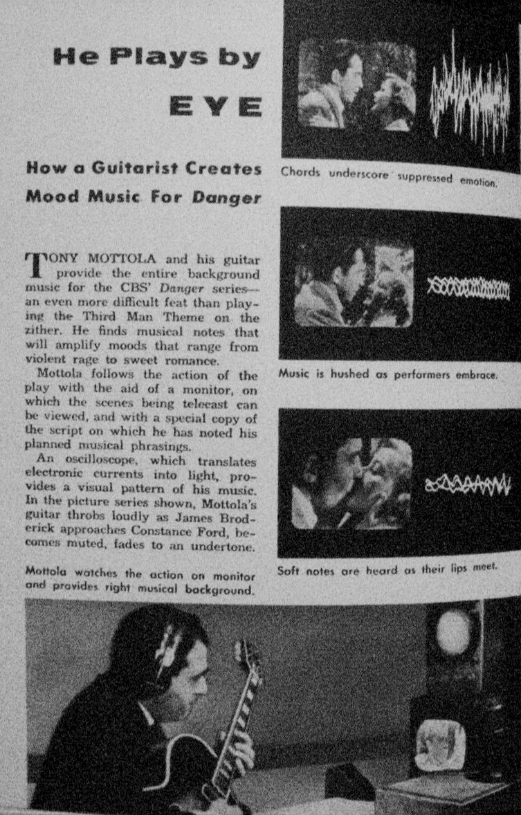 Photos and story of how guitarist Tony Mottola created the score for the television series Danger (TV series). Mottola is shown watching a television monitor for events in the program. He also worked with a copy of the script, creating the music for the show as it was being performed.